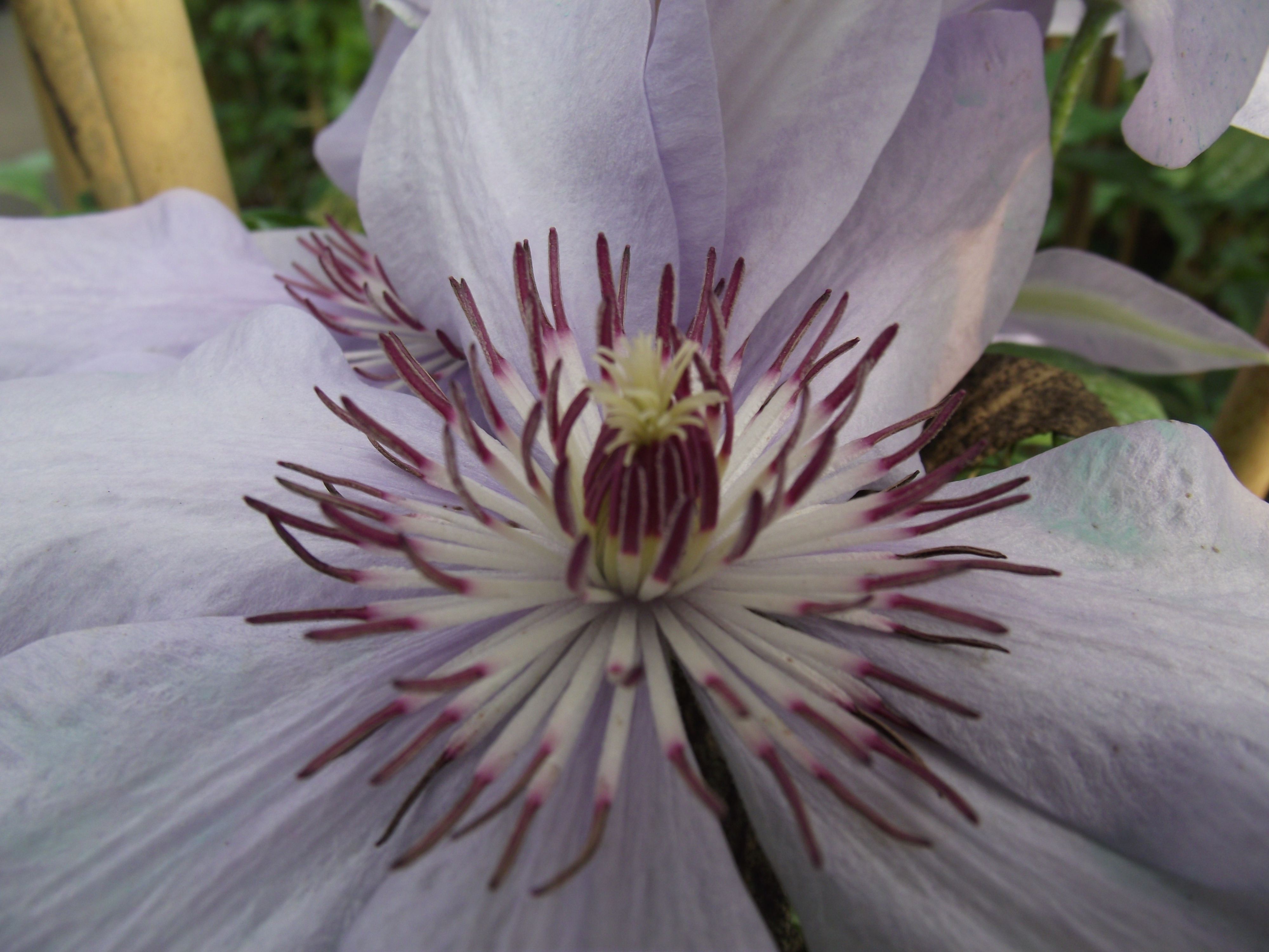 Clematis patens Bernardine 'Evipo061'